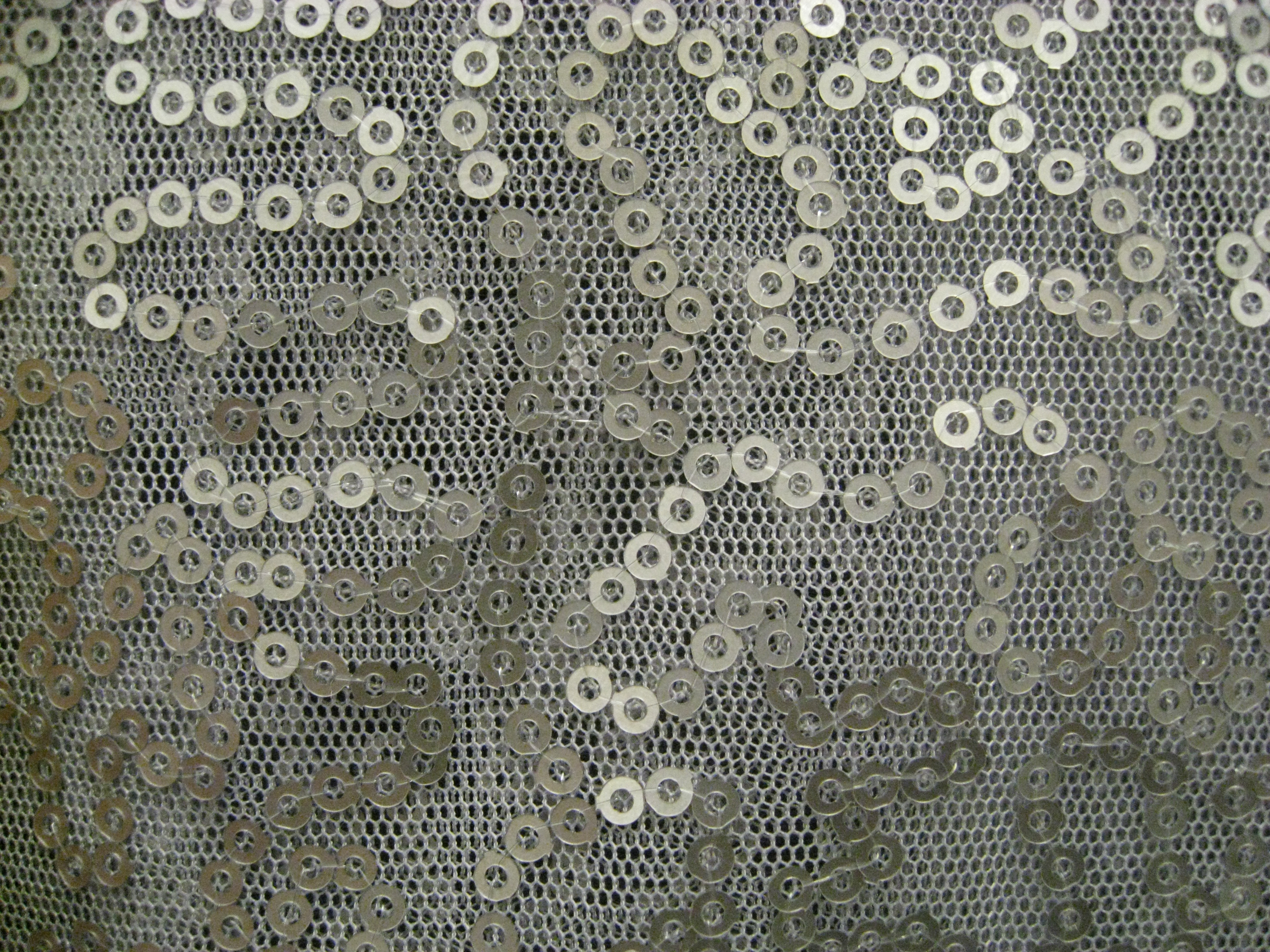 See filename. By Sherrie Thai of . Feel free to download and use these as a background for commercial or noncommercial projects. If you decide to use them, please let me know how it goes by sending a link or an image. Enjoy!